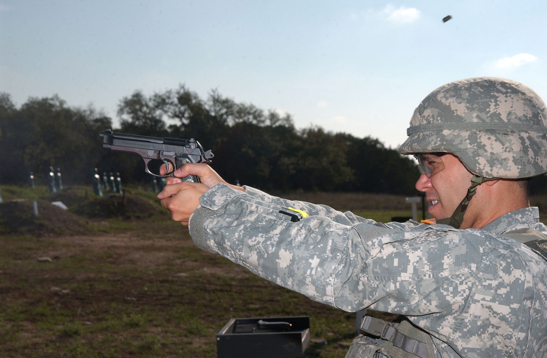 Maj. Armando Valdez, a Mexico theater cooperation desk officer with U.S. Army North, fires a round from his M-9 pistol at a target downrange during a weapons familiarization table Sept. 18 at Camp Bullis. More than 50 Soldiers from U.S. Army North qualified with either the M-16 rifle or the M-9 pistol at Camp Bullis Sept. 15-18.